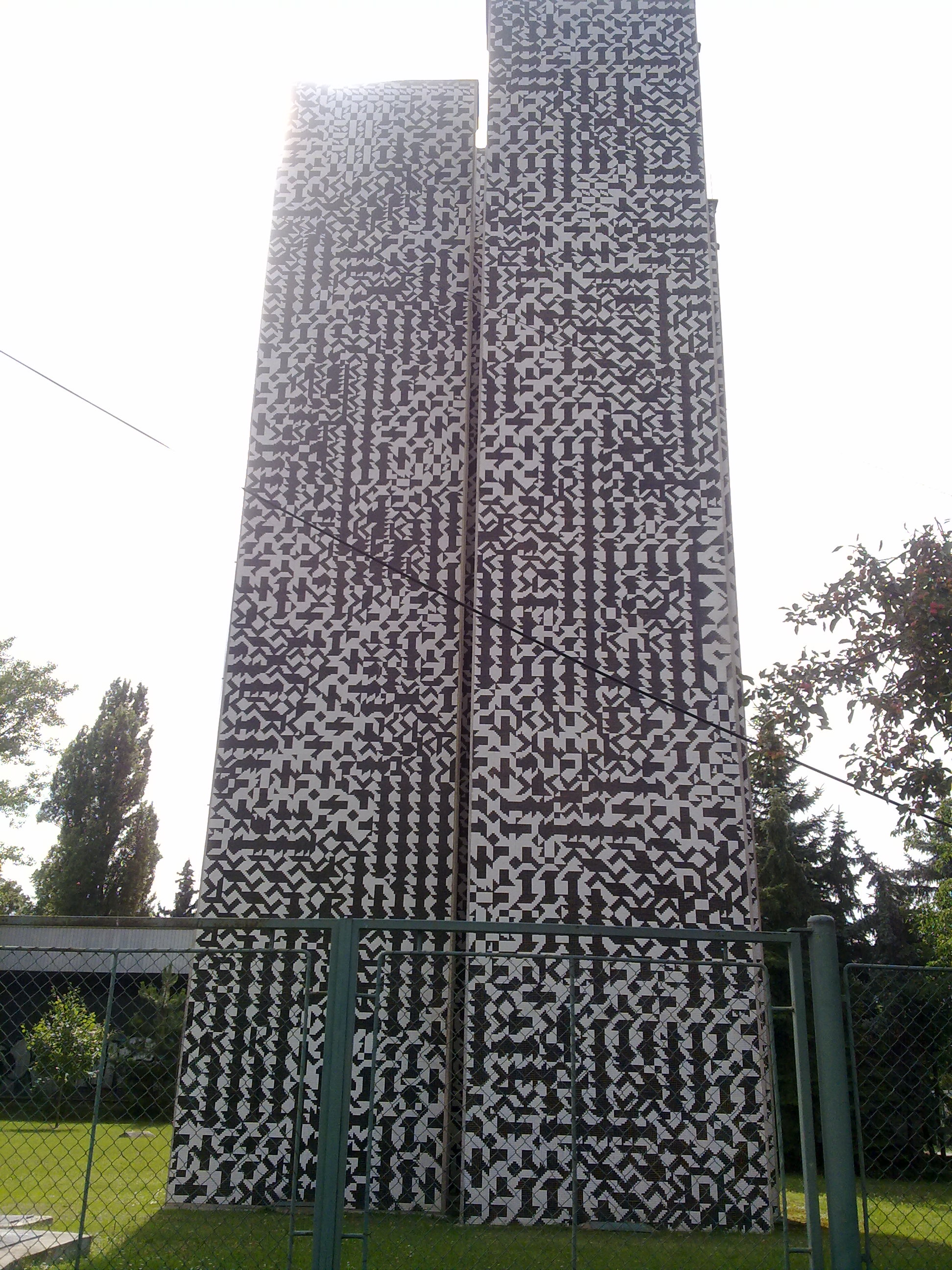 Ventilation tower of Letenský tunnel decorated by Zdeněk Sýkora